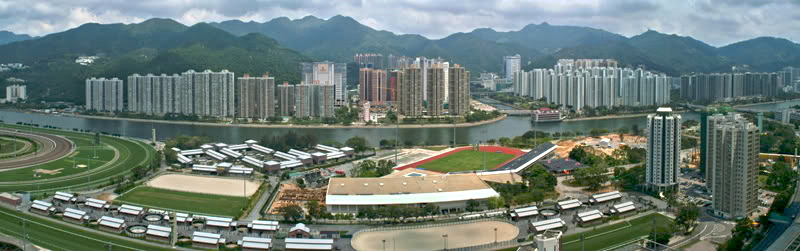 Panorama view from JG